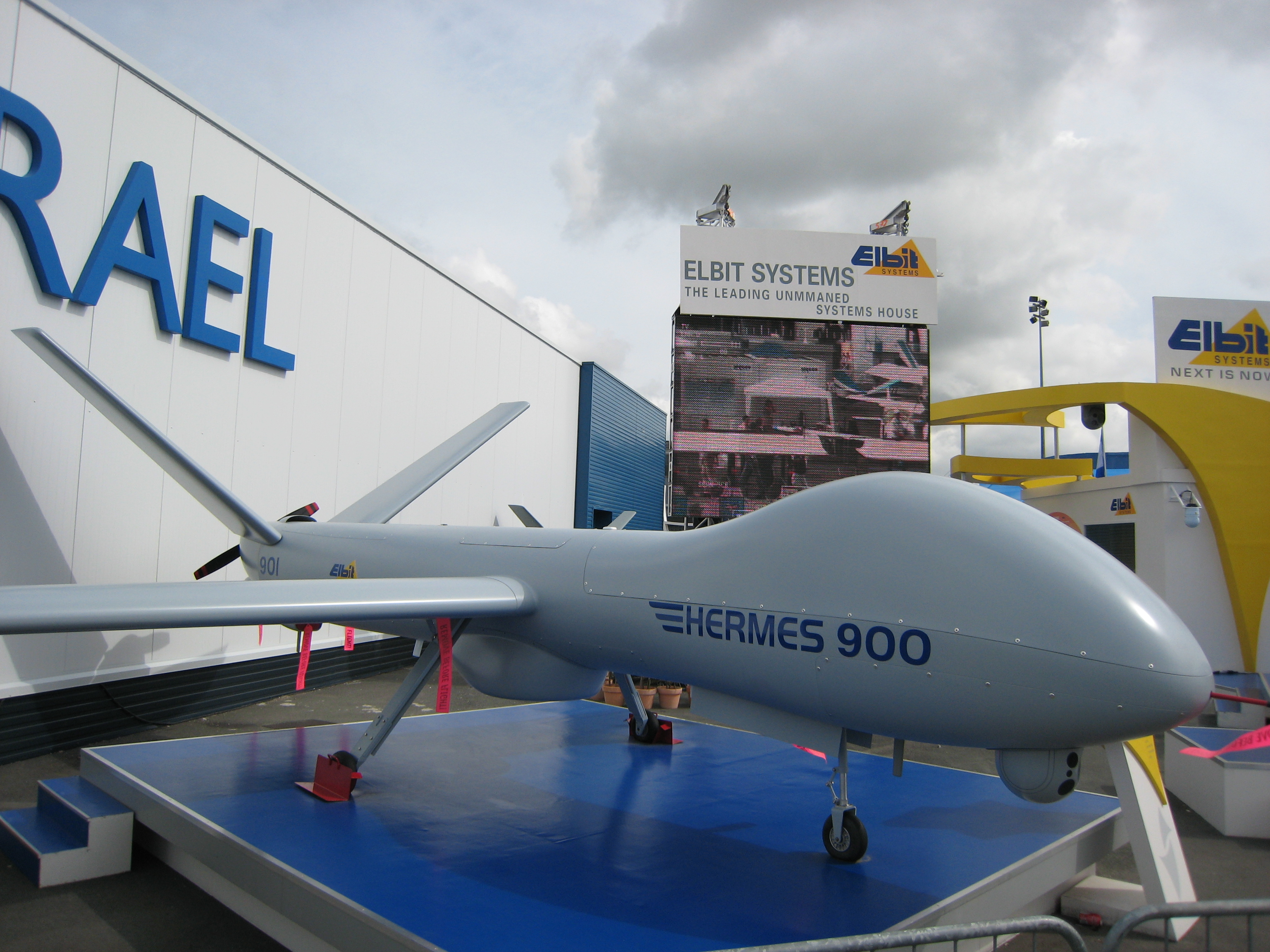 Elbit Systems Hermes 900 Unmanned aerial vehicles at Paris Air Show 2007